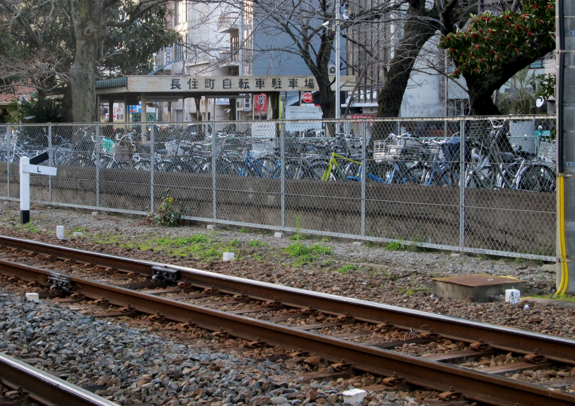 Nagoya Railroad Kakamigahara Line Arata (Abandoned) Station trace